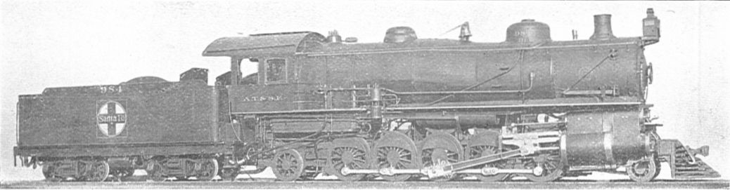 Tandem Compound Double-end "Decapod" Freight, Atchison, Topeka and Santa Fé